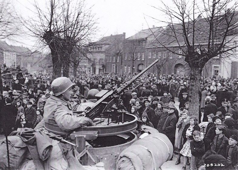 The people of Juchen assemble in the market place of their town, 28 February 1945. A soldier of 2nd Armored Division,82nd Armored Reconnaissance battalion, keeps watch from the turret of his M8 armored car.